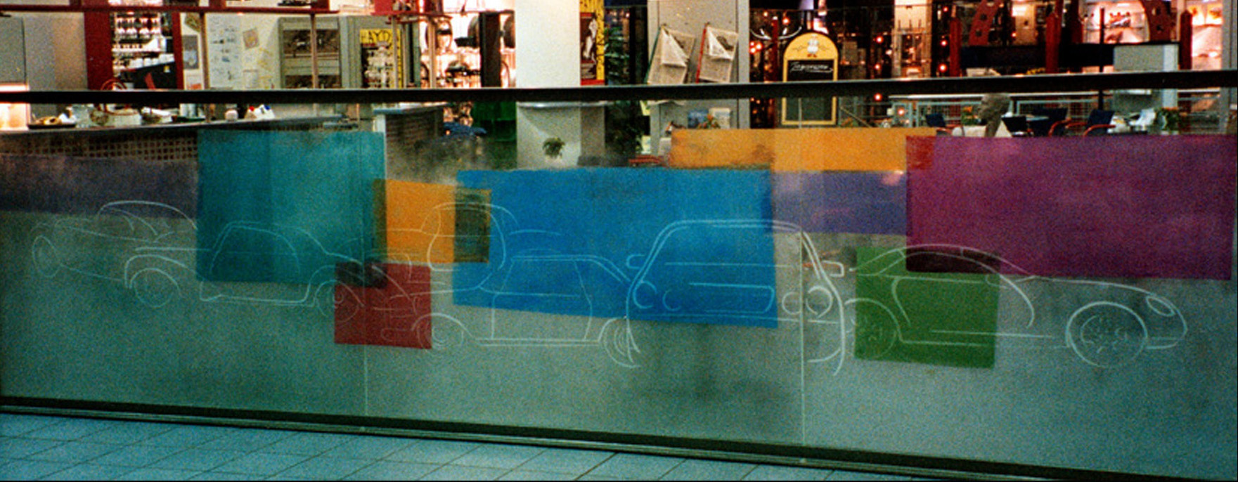 A section of partition wall created for the bistro within the Mercedes Benz Headquarters showroom in Stuttgart